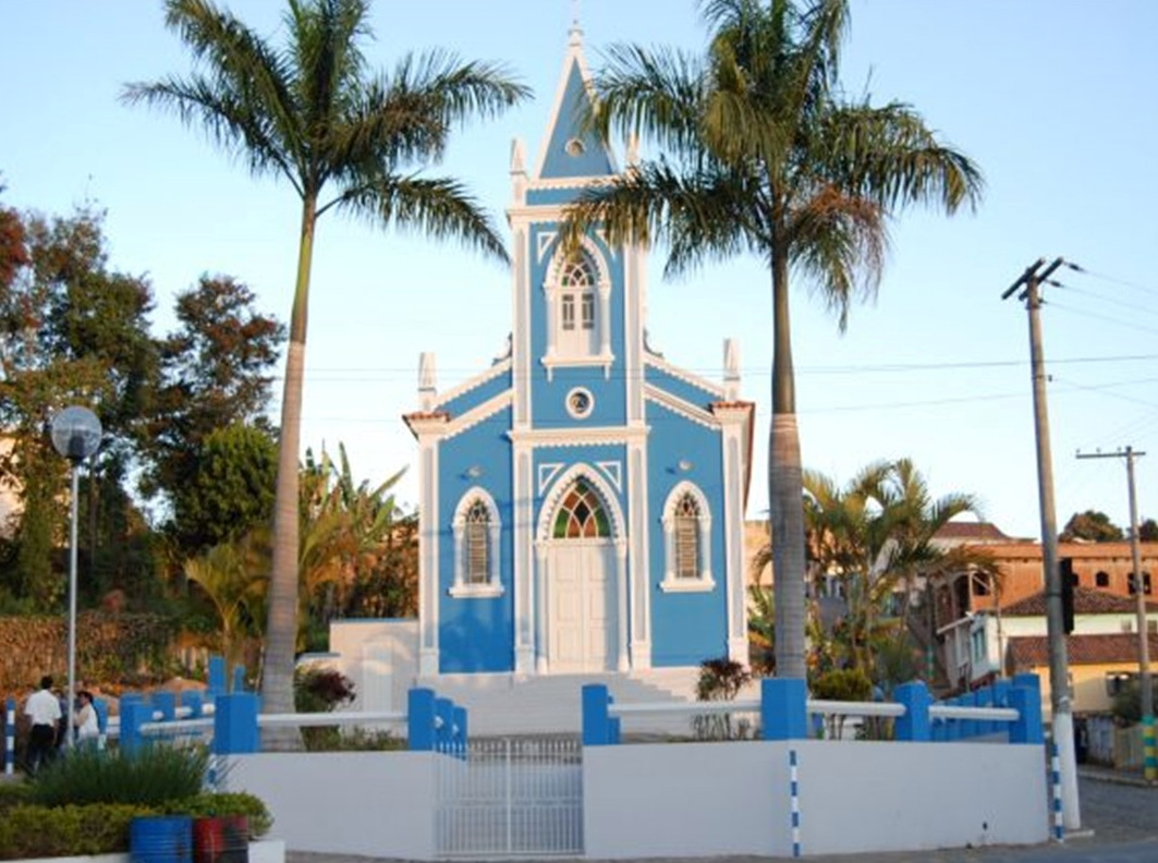 This is Rosário's church